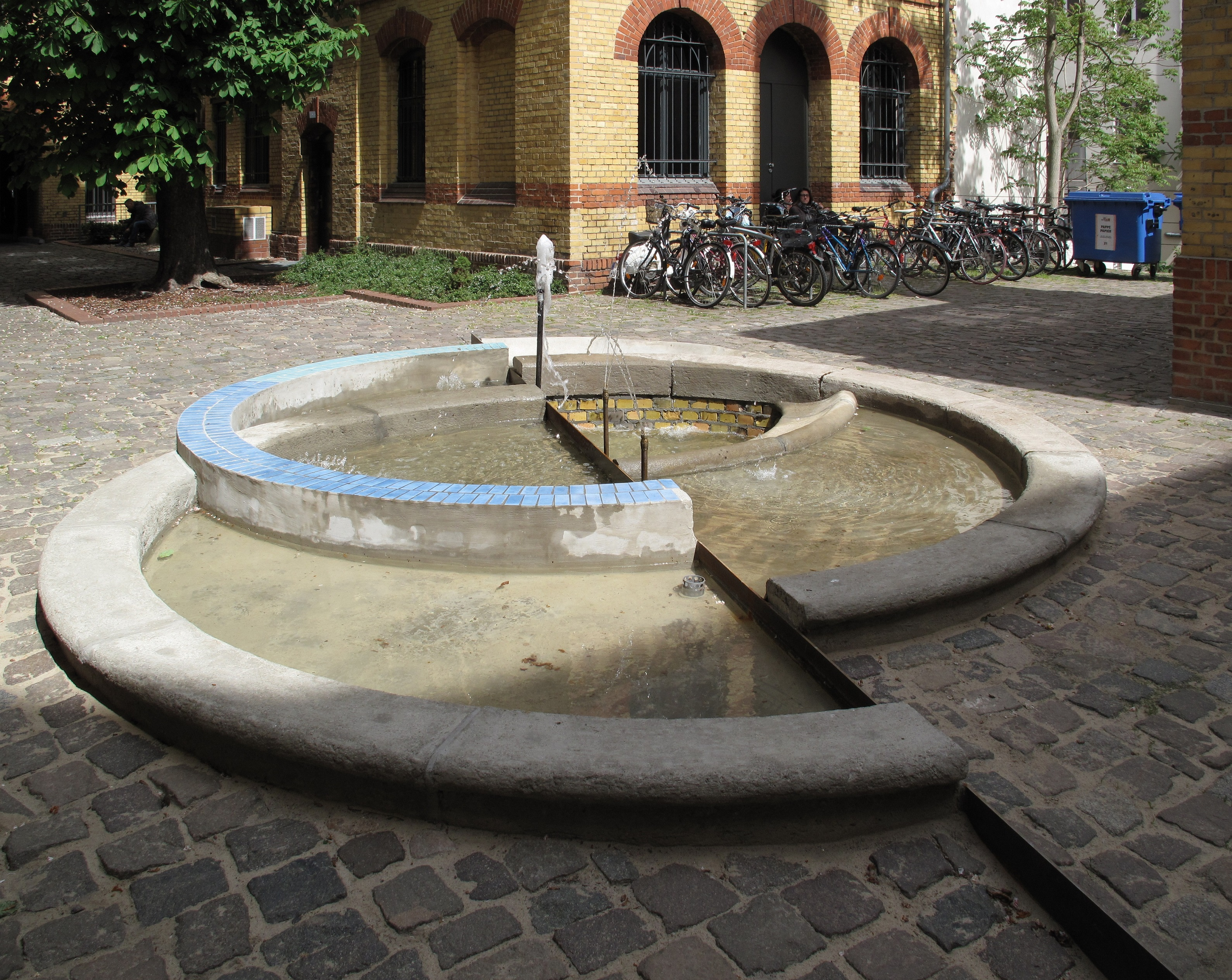 Fontes e sequestros is an art work, created by brazilian installation- and conceptual artist Renata Lucas on the occasion of Berlins Gallery Weekend 2015. It was presented by the gallery neugerriemschneider in the listed building Linienstraße No. 155 in Berlin-Mitte, Germany. The central part of the work, a fountain, is placed in the courtyard of the gallery. In the work Lucas combined the recasted structures of three Berlin-fountains from different architectural epochs into a new historical symbol.